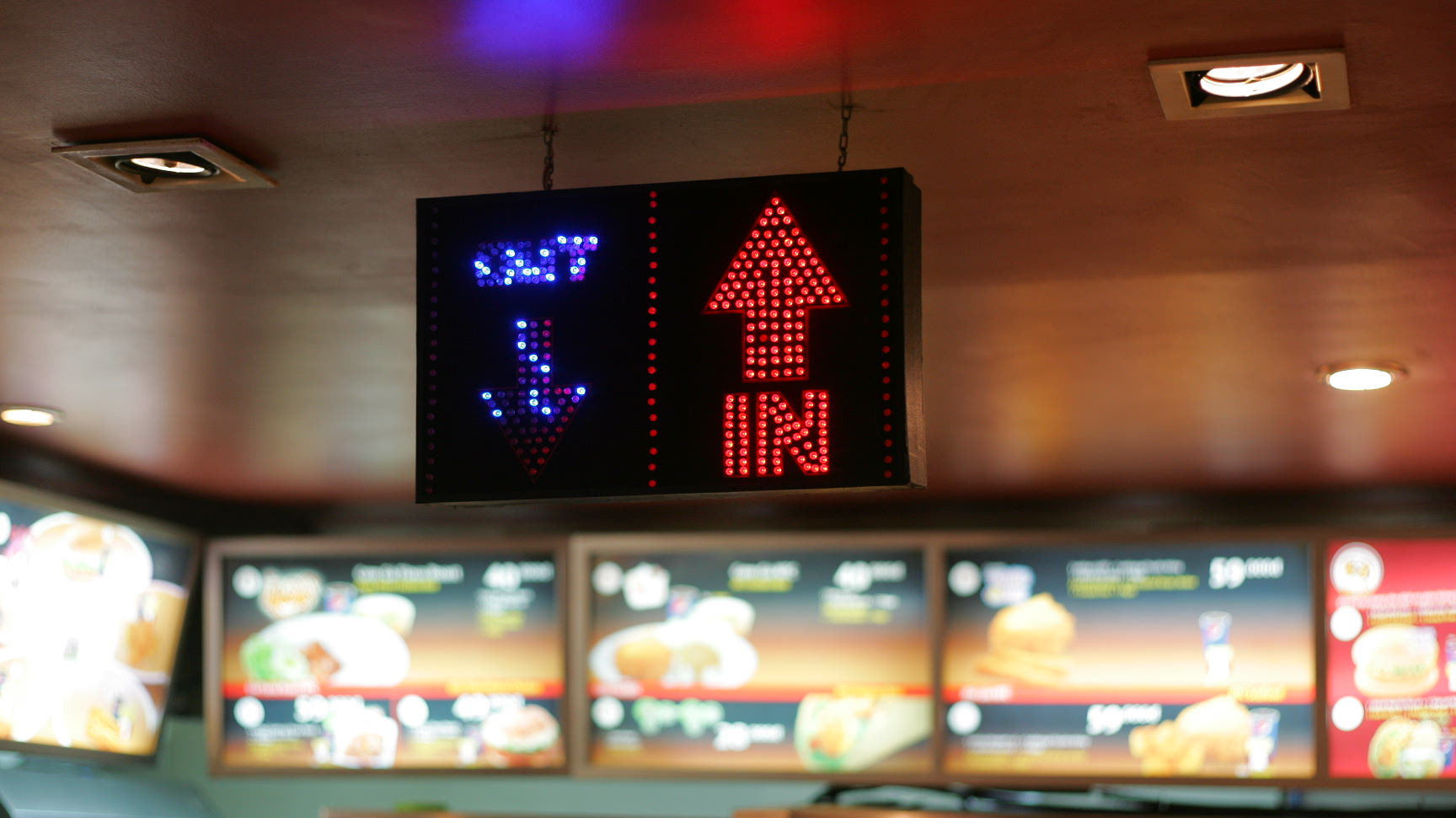 Blue/Red LED failure rate